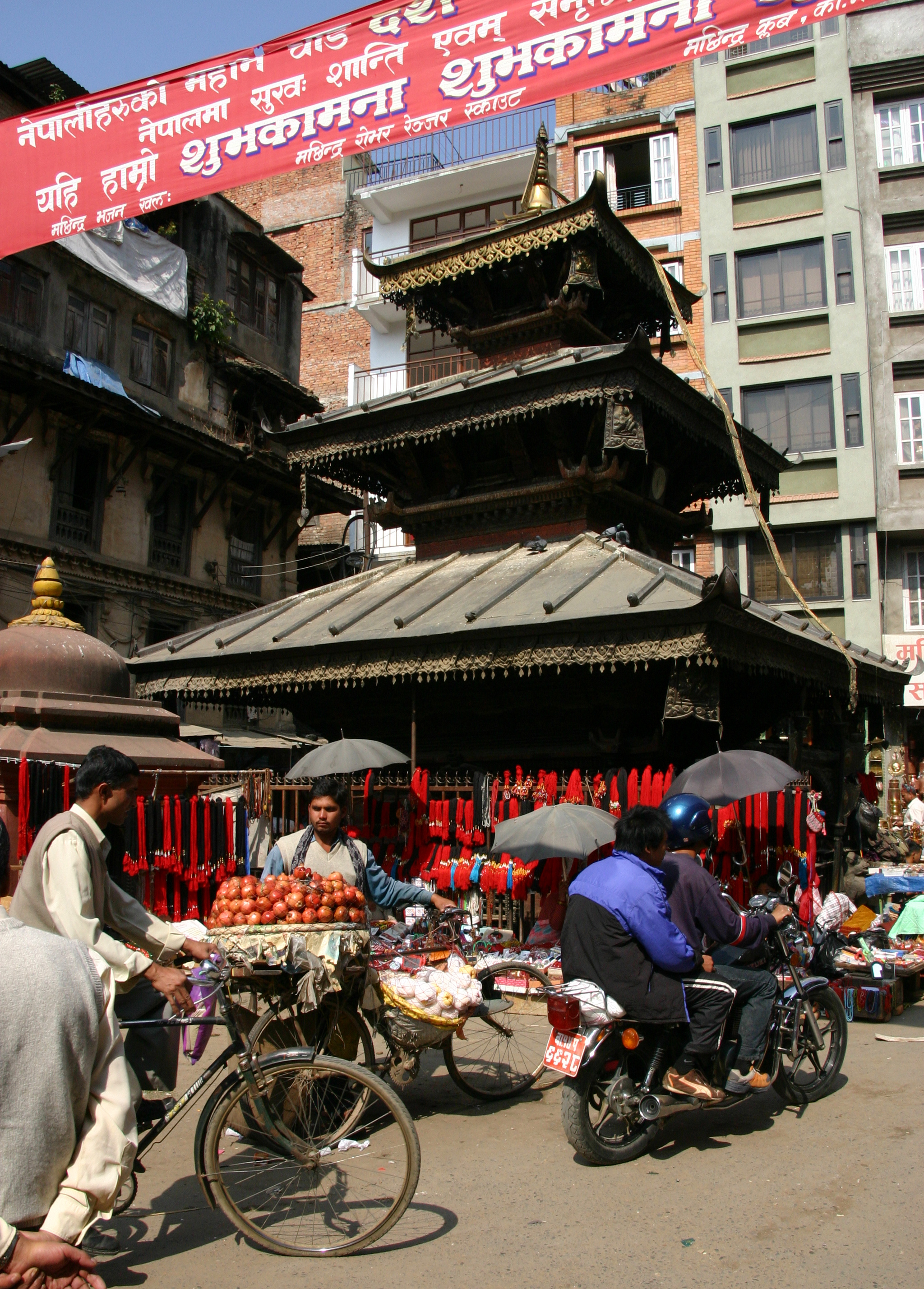 Annapurna Temple, Kathmandu